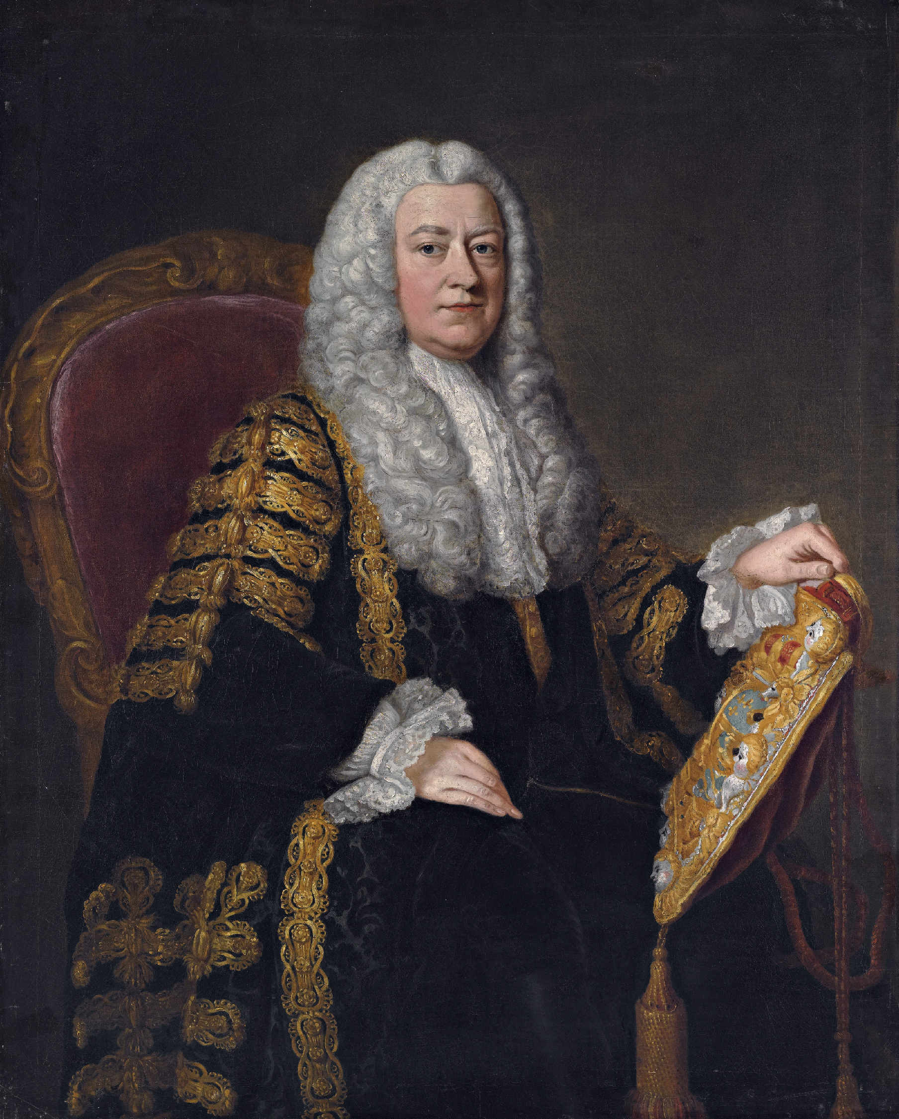 Philip Yorke, 1st Earl of Hardwicke (1690-1764) wearing the robes of the keeper of the Great Seal